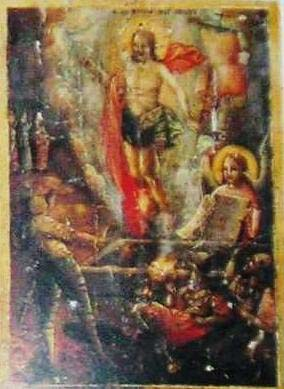 Ressurection of Christ Icon in All Saints Church in Xirokrini, Thessaloniki